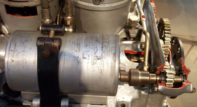 Self starter from an airship engine, circa 1920